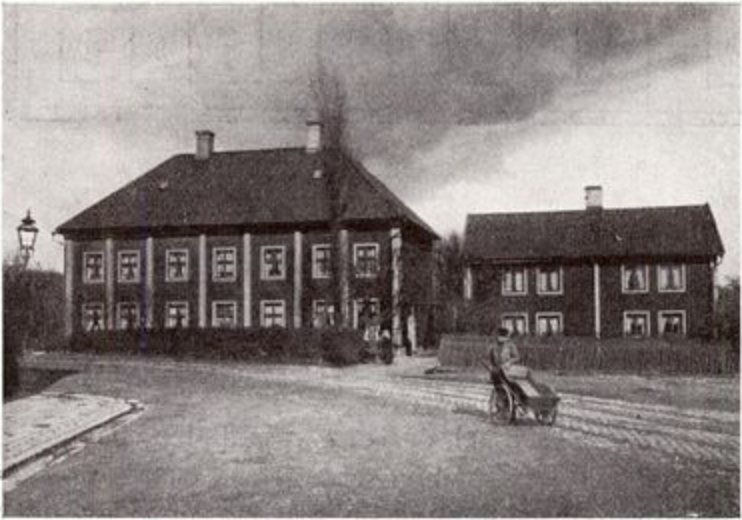 The previous poorhouse at Stampen in Göteborg, around 1900.